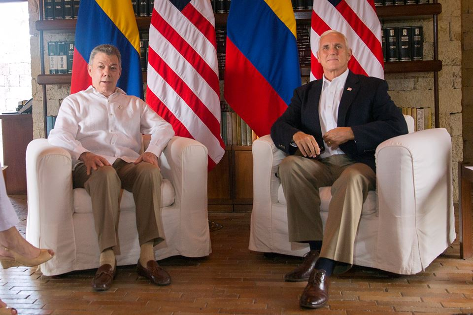 Vice President Mike Pence and Colombian President Juan Manuel Santos meet in Cartagena, Colombia, August 13, 2017 (Official White House photo by Myles D. Cullen)